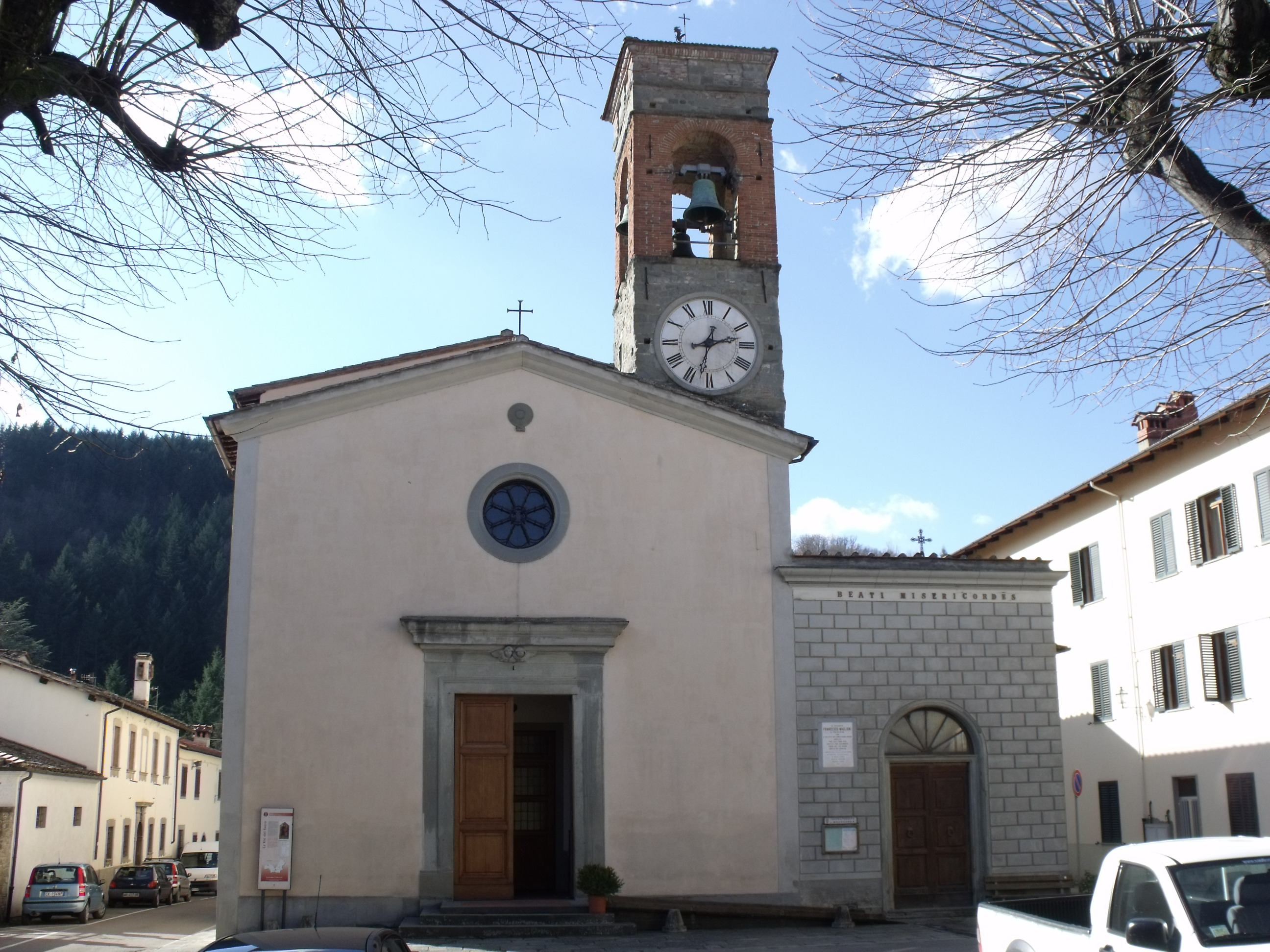 Church Propositura del SS Nome di Gesu in Pratovecchio, Casentino, Province Arezzo, Tuscany, Italy